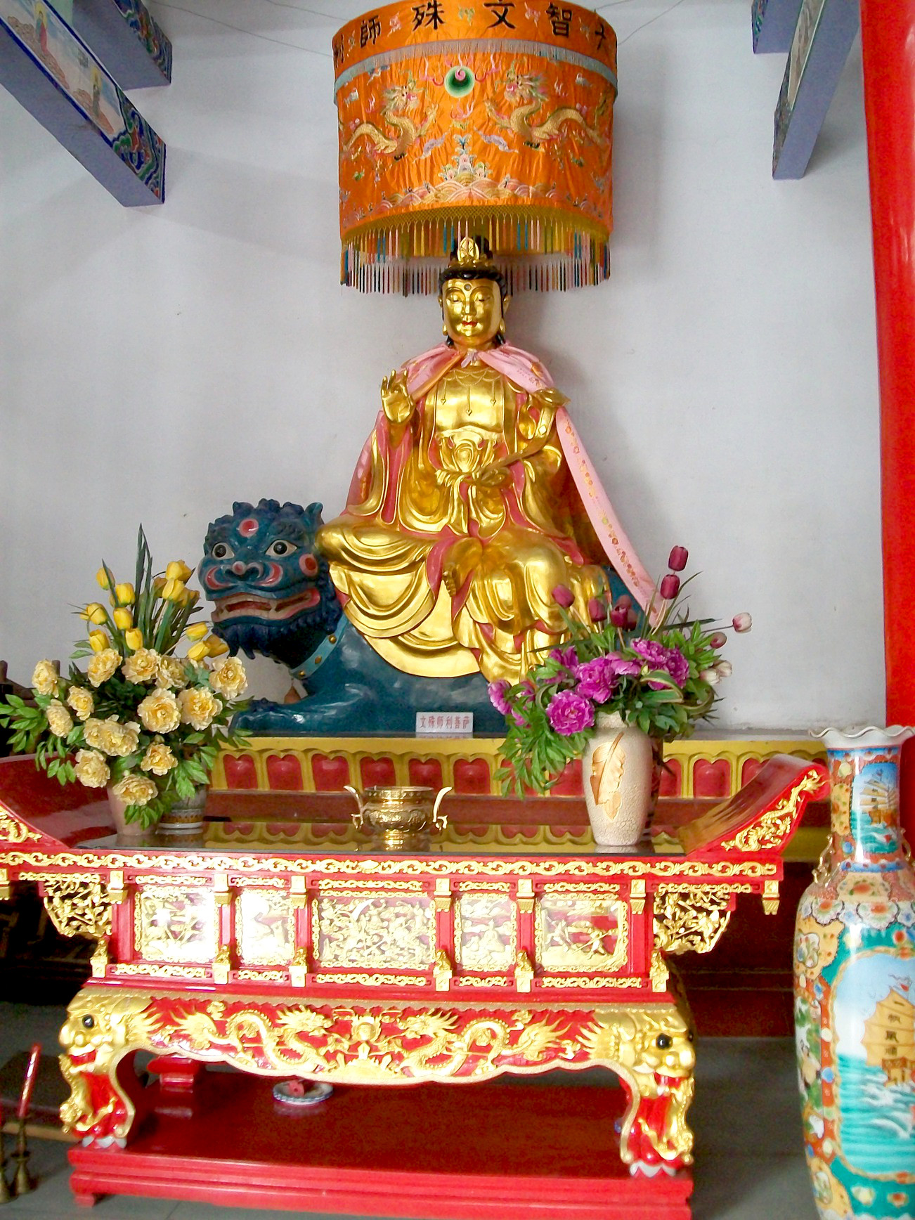 Statue of Manjusri Bodhisattva (Wenshushili Pusa) seated on his blue lion. Guanyin Nunnery, Anhui province, China.